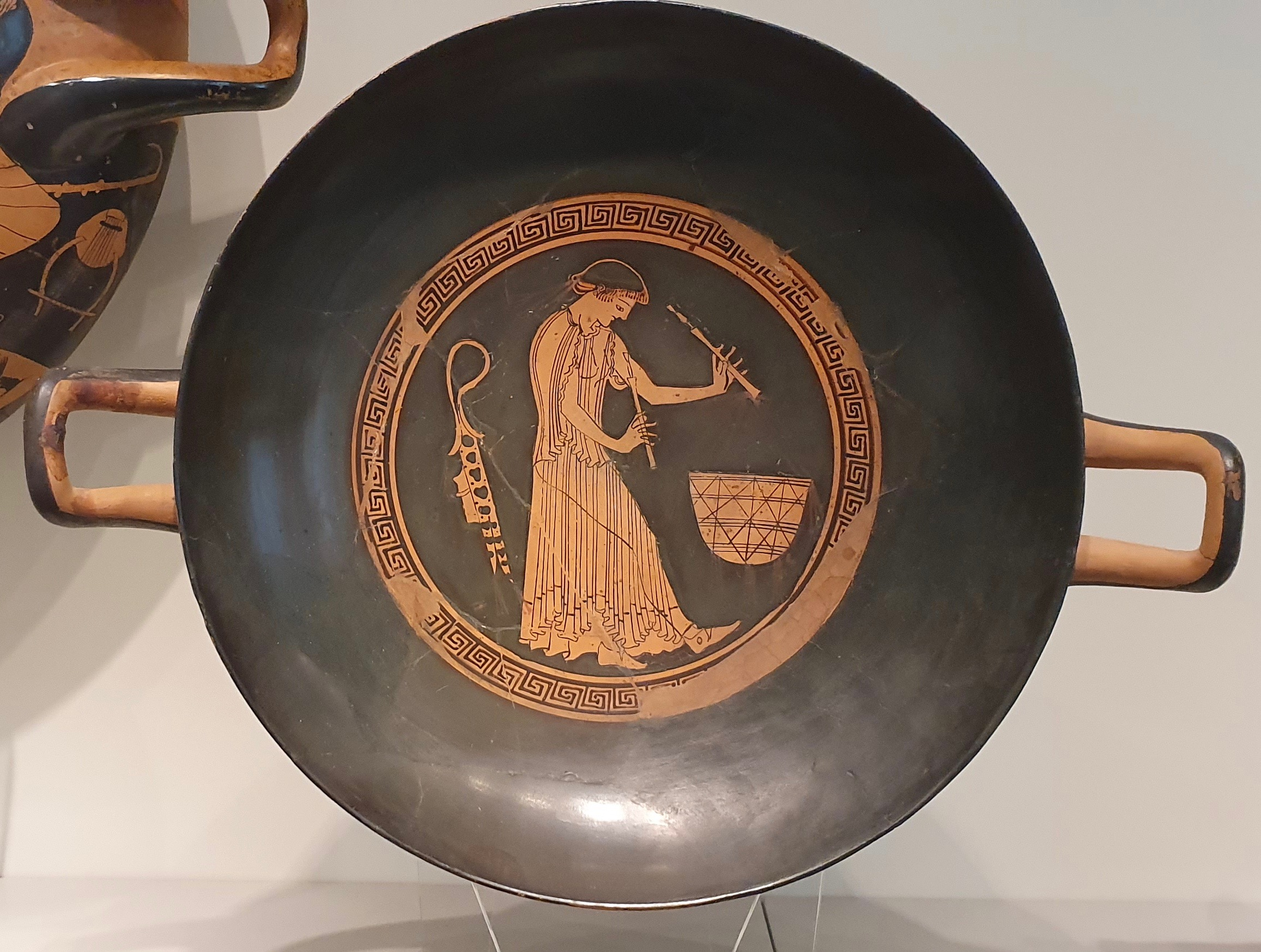 Flutist in front of a food basket, clay, around 480 BC, cup, Attic red-figure, airributed to the painter Douris at Altes Museum